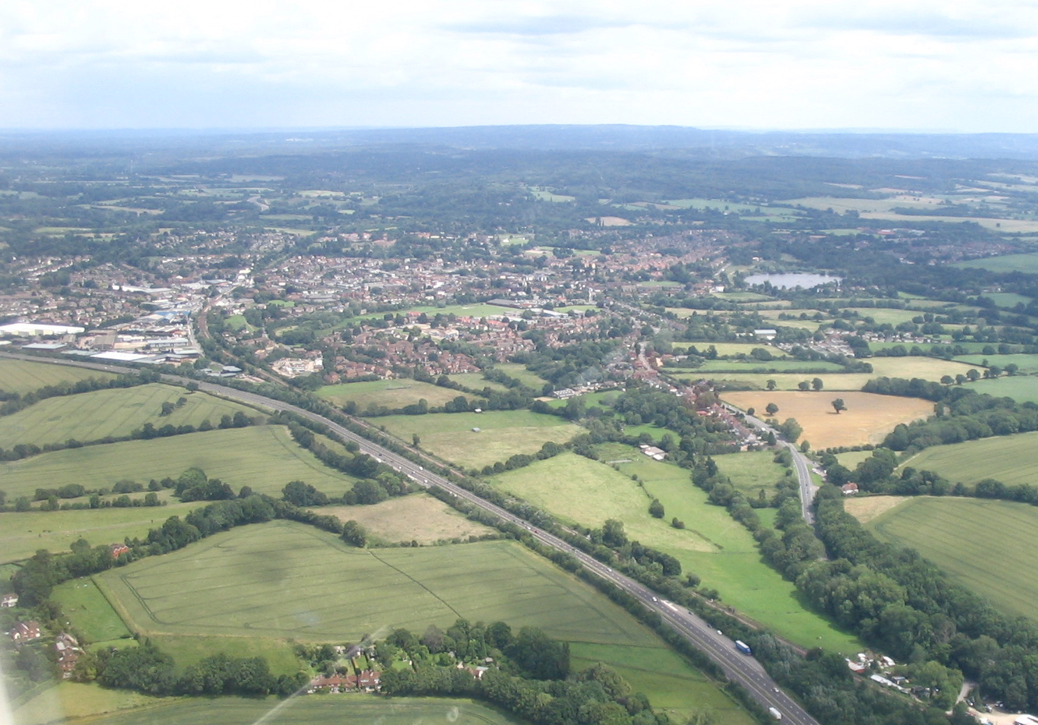 Aerial view of Petersfield, Hampshire, from the southwest, showing A3 bypass (foreground), Petersfield town, and Surrey hills (background)